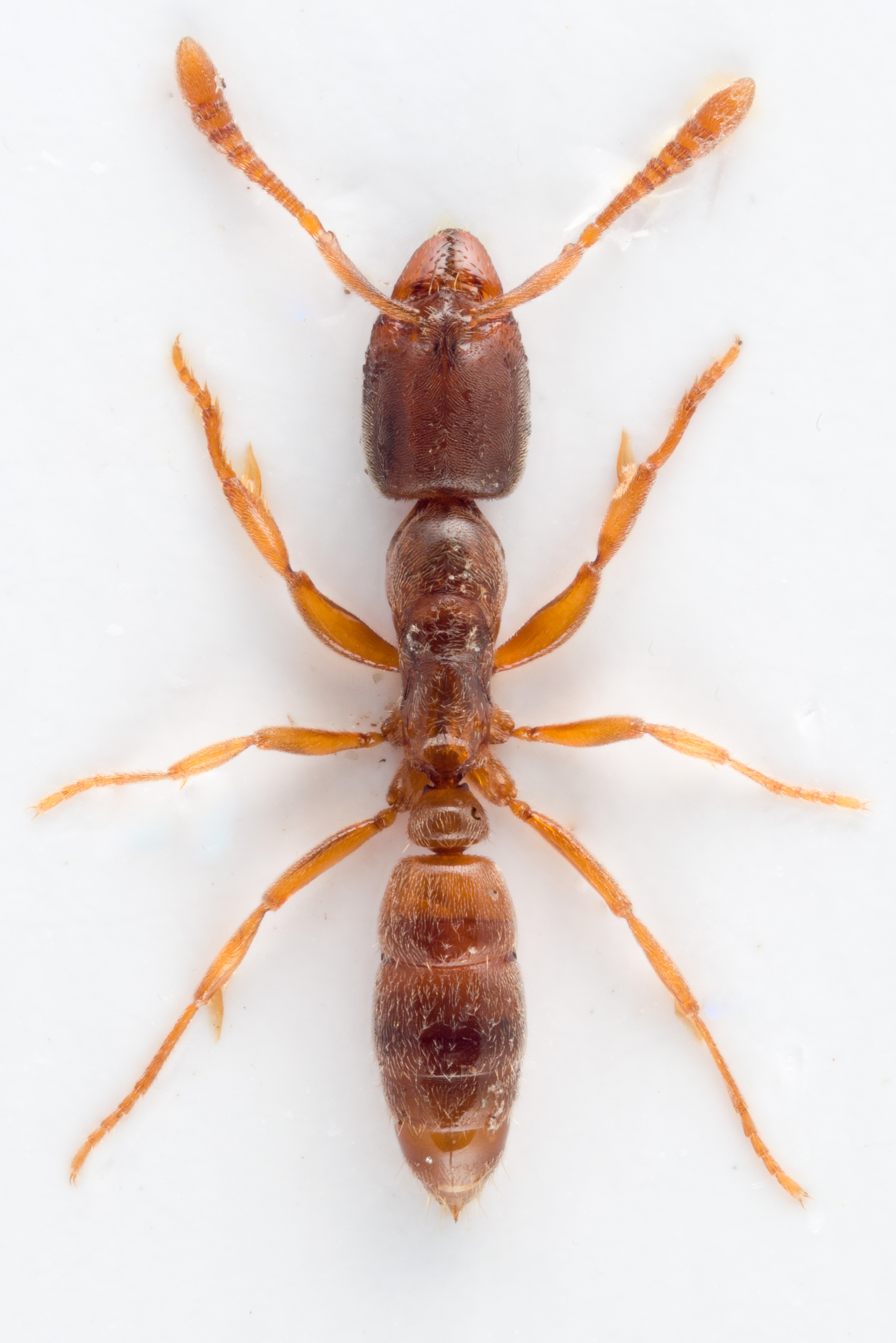 Worker ant of Hypoponera punctatissima.